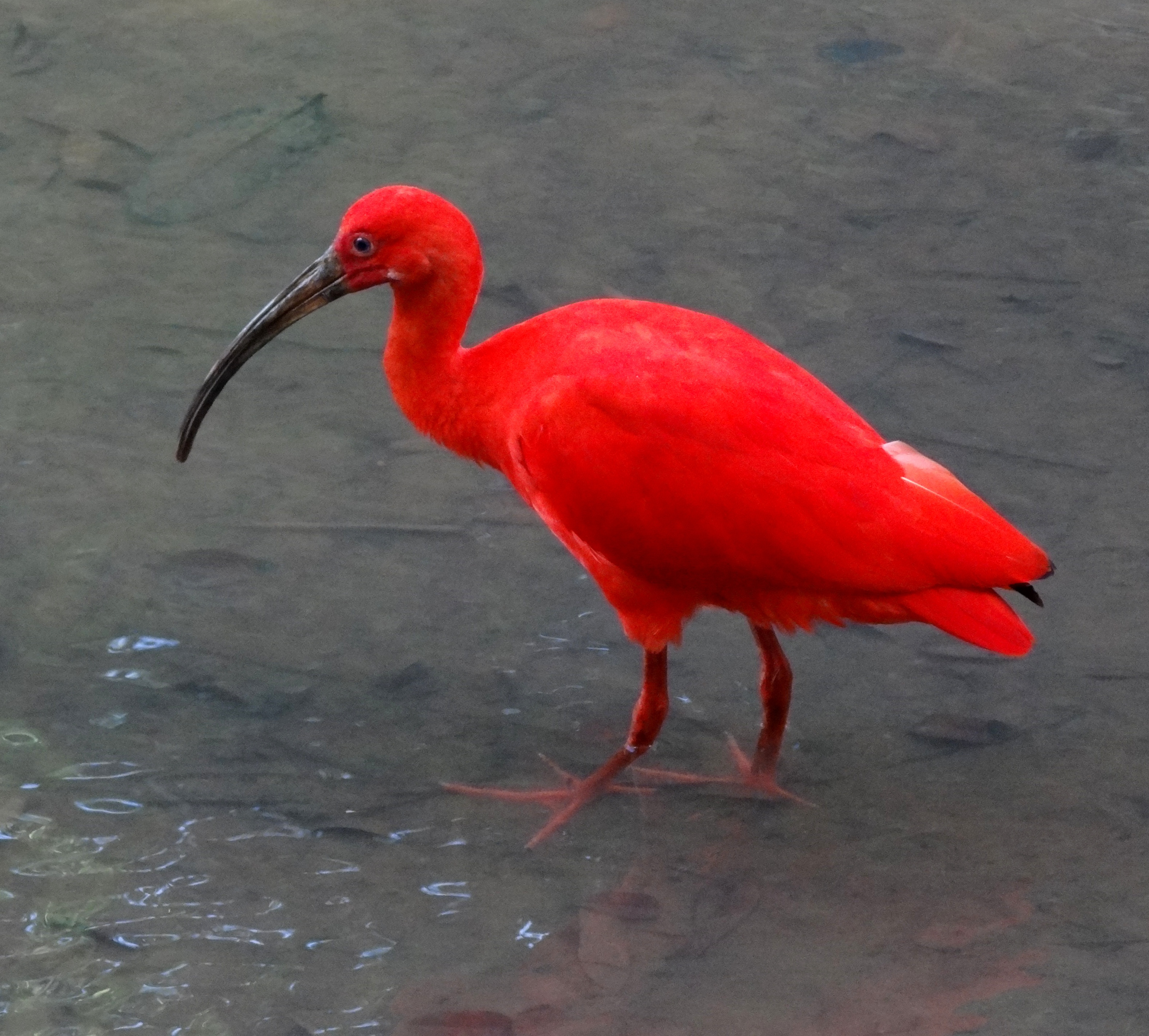 A scarlet ibis (Eudocimus ruber) photographed in the massive aviary at the Kuala Lumpur Bird Park.